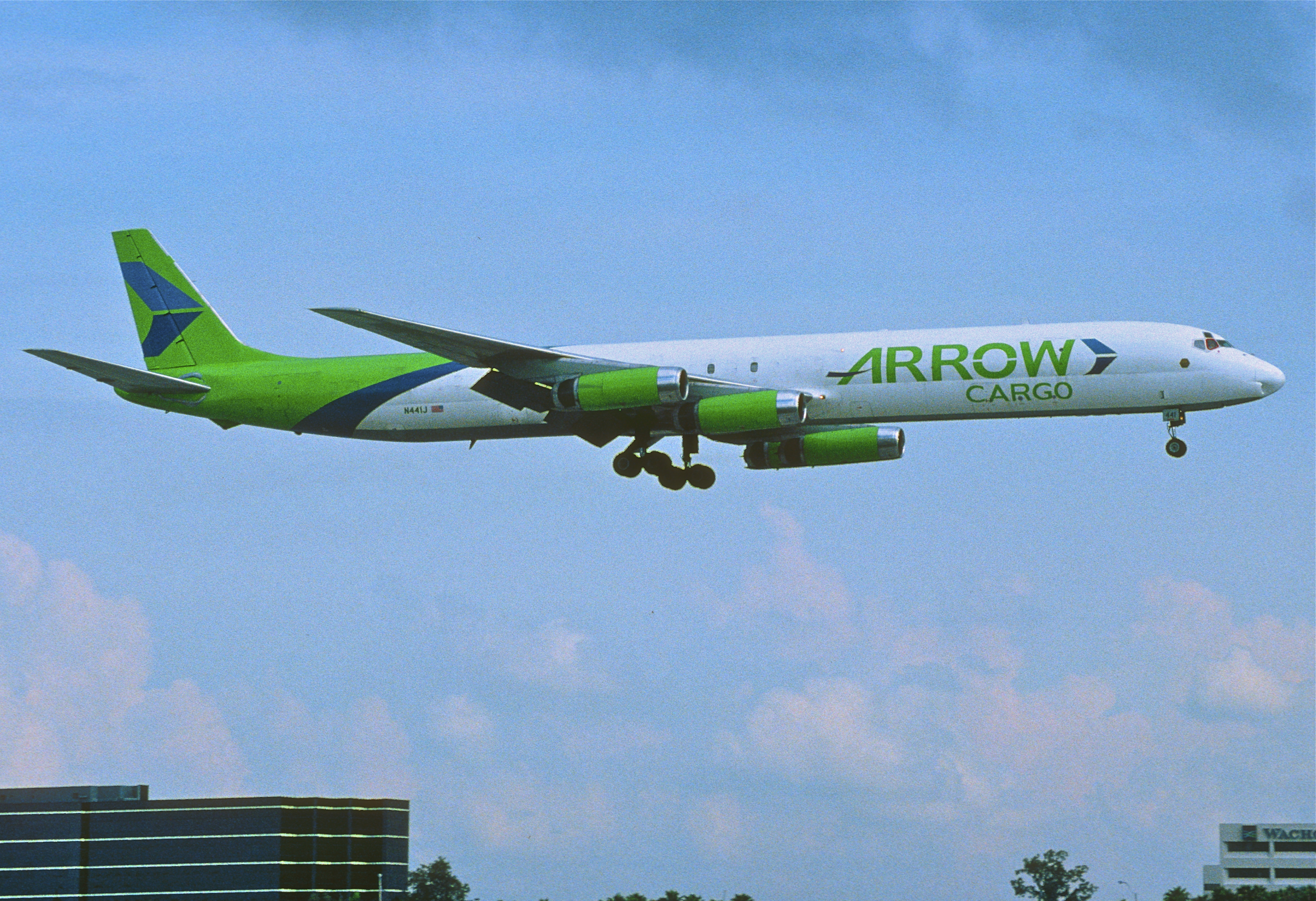 375cr - Arrow Air DC-8-63F; N441J@MIA;01.09.2005